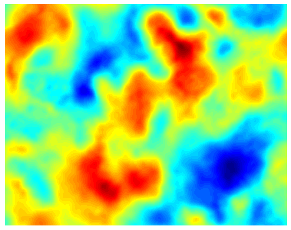 Filtered velocity from a DNS simulation of homogeneous decaying turbulence in a periodic box. Velocity field is filtered using a box filter. DNS data is from Lu and Rutland.[1] ↑ Lu, Hao (2008). "A priori tests of one-equation LES modeling of rotating turbulence". International Journal of Modern Physics C 19 (2): 1949-1964.